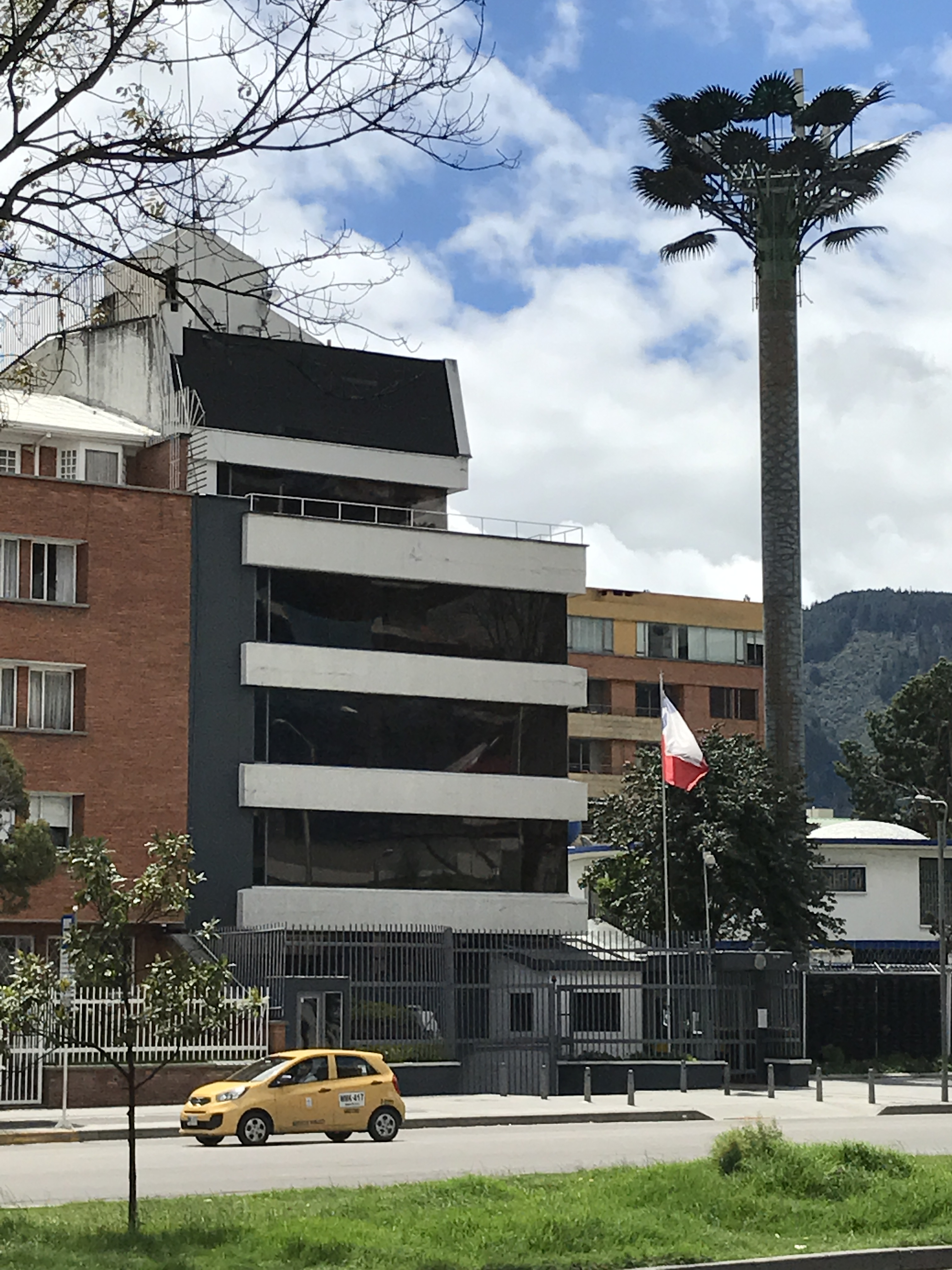 Embassy of Chile in Bogota, Colombia